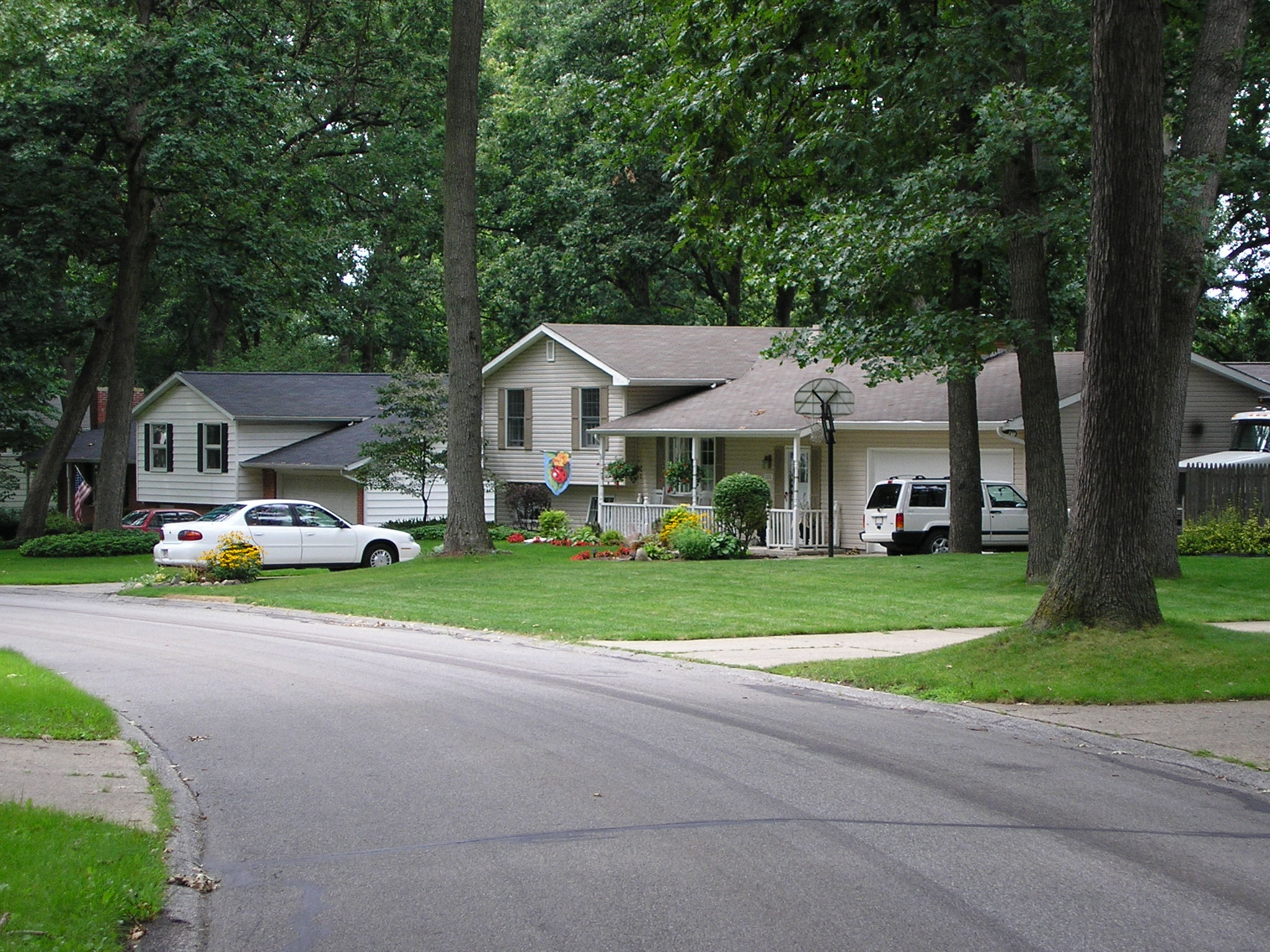 Houses, Indiana, USA Georgi Banchev 2004